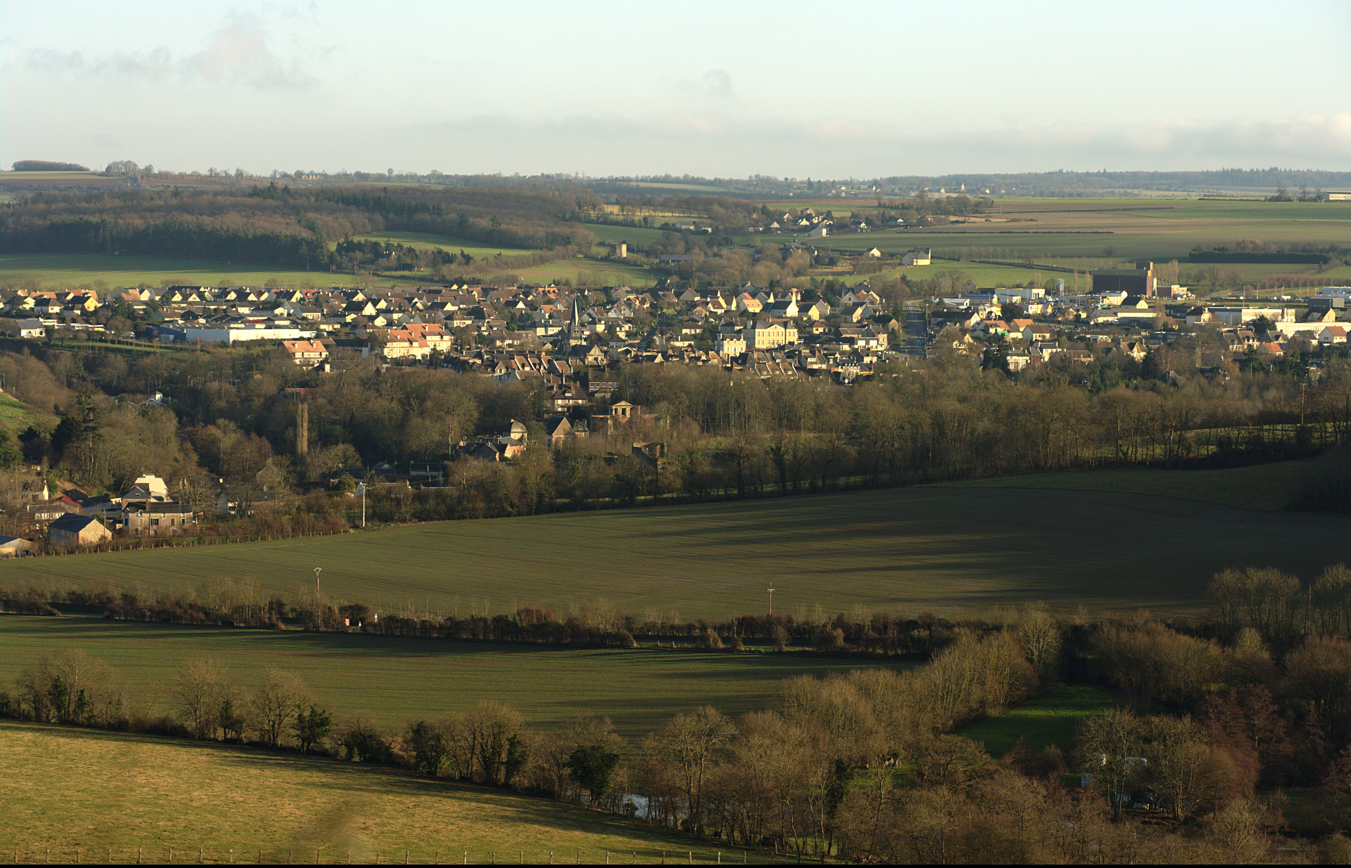 A view of Thury-Harcourt village.